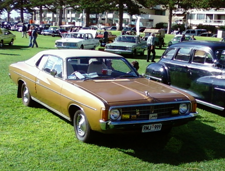 Chrysler VJ Valiant Regal Hardtop, as built by Chrysler Australia from 1973 to 1975.